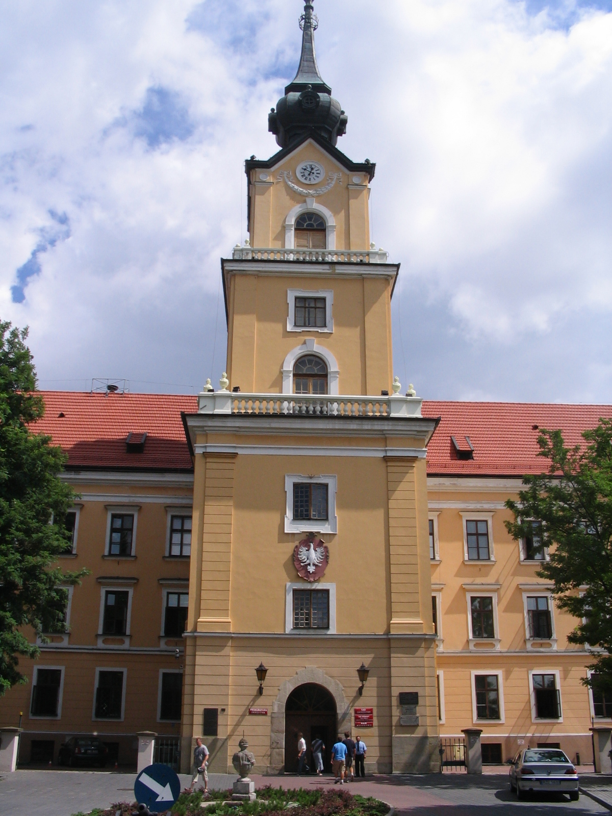 Tower of the castle of Rzeszów